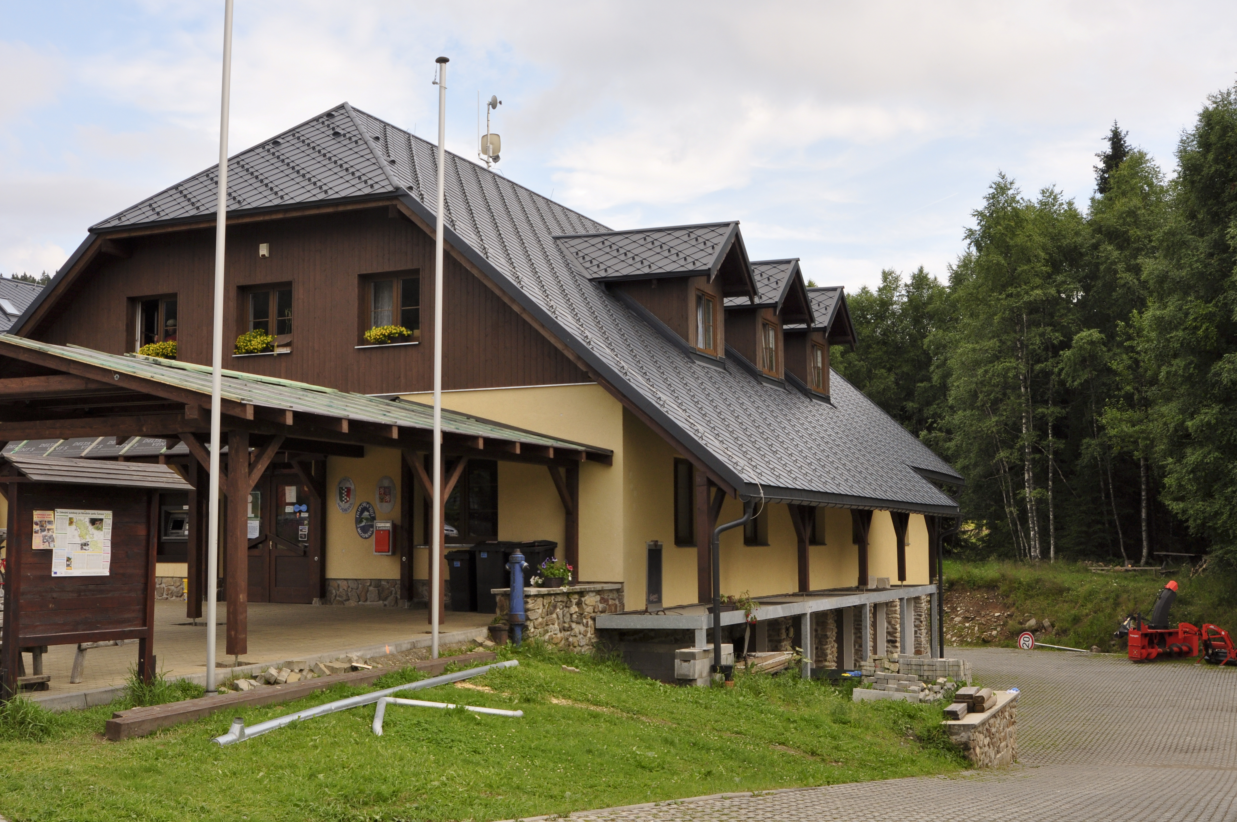 Modrava - Municipal office